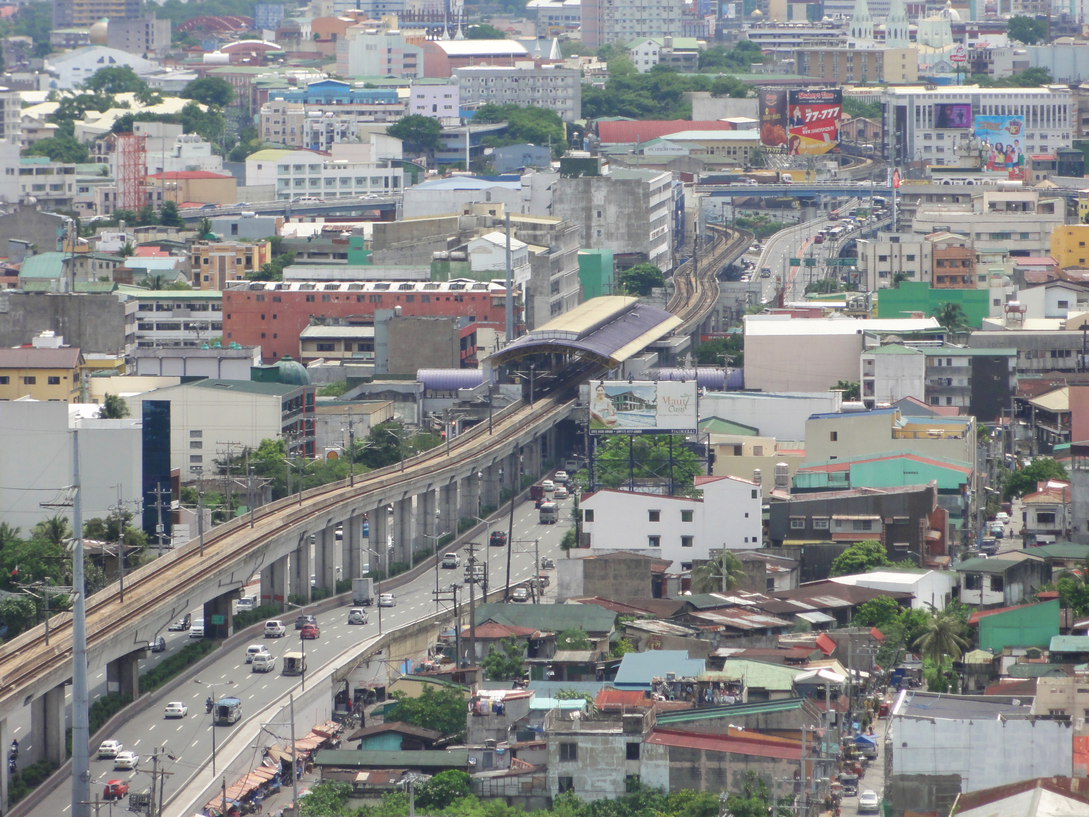 Aerial view of Ramon Magsaysay Boulevard in Santa mesa, Manila. Pureza Station is also visible. Ramon Magsaysay Boulevard is part of Metro Manila's Radial Road 6. Shot from the roof deck of Sorrel Residences condominium in Santa Mesa.